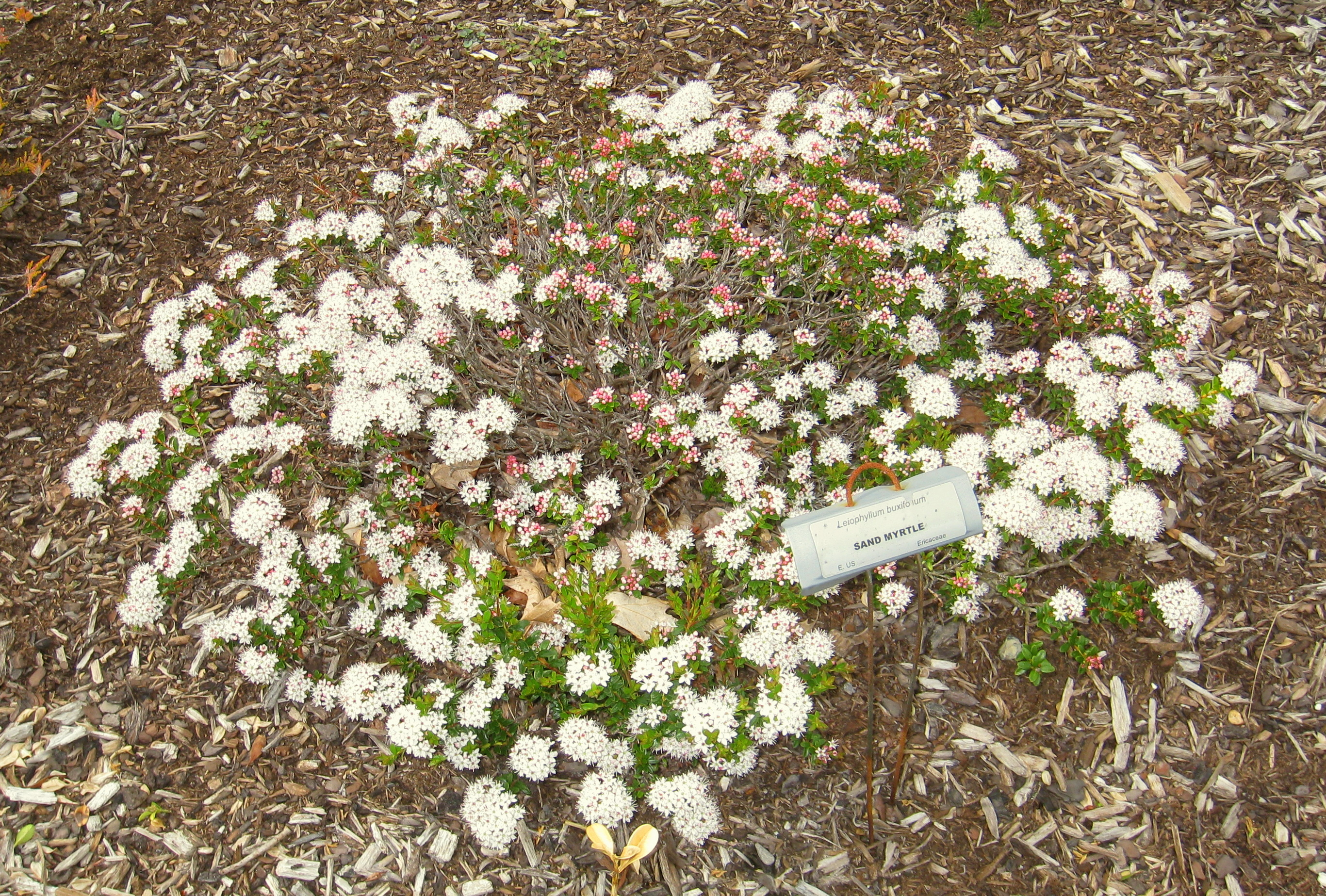 Leiophyllum buxifolium, in the Tower Hill Botanic Garden, Boylston, Massachusetts, USA.